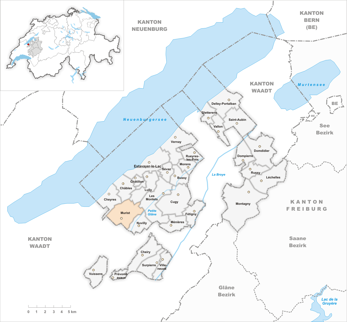 Municipality Murist